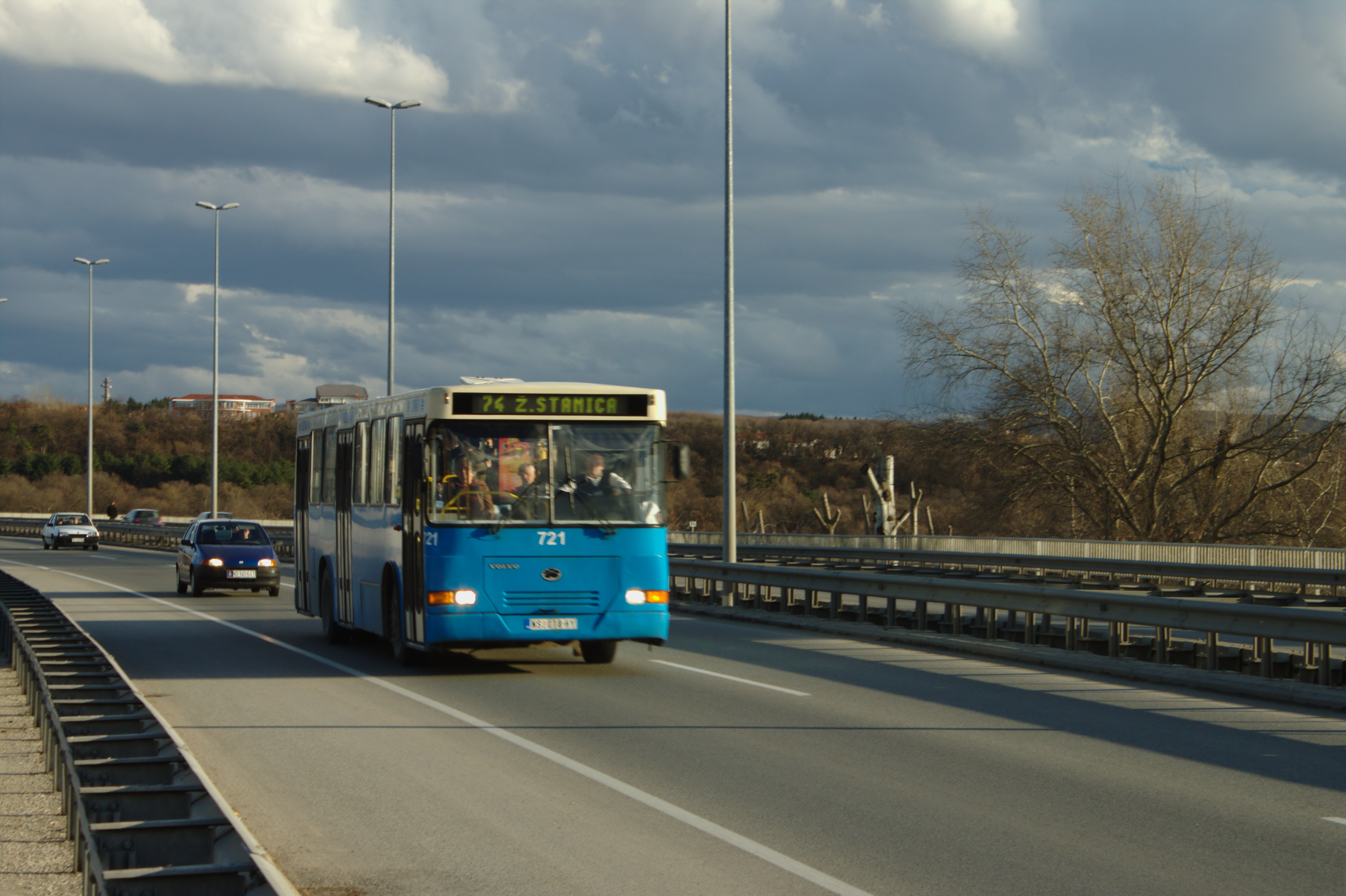 An suburban bus arriving to Novi Sad over the Liberty Bridge (Most Slobode), Novi Sad, Serbia